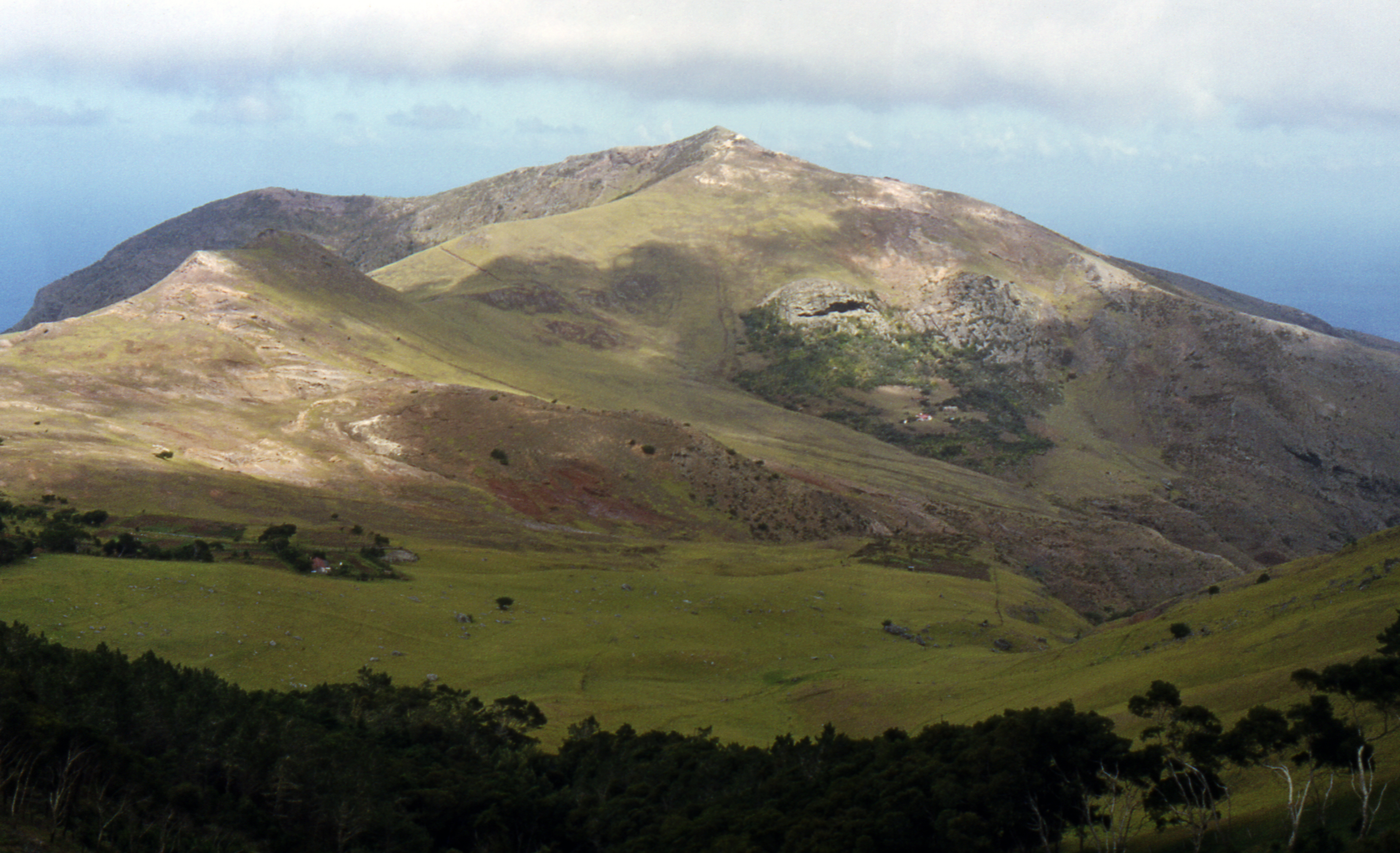 Saint Helena Island.